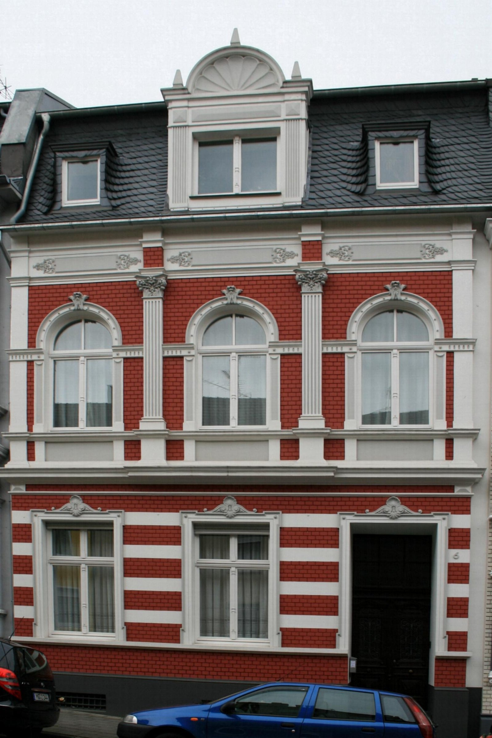 Cultural heritage monument No. B 050 in Mönchengladbach